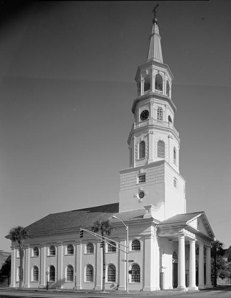 St. Michael's Episcopal Church (Charleston, South Carolina) (cropped)